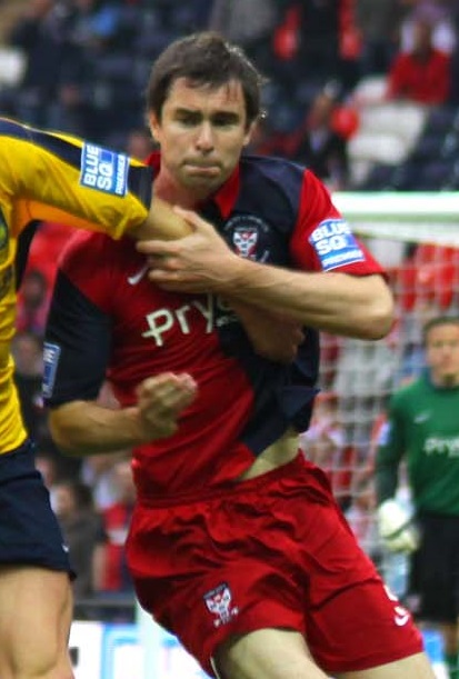 David McGurk playing for York City against Oxford United at Wembley Stadium, London on 16 May 2010